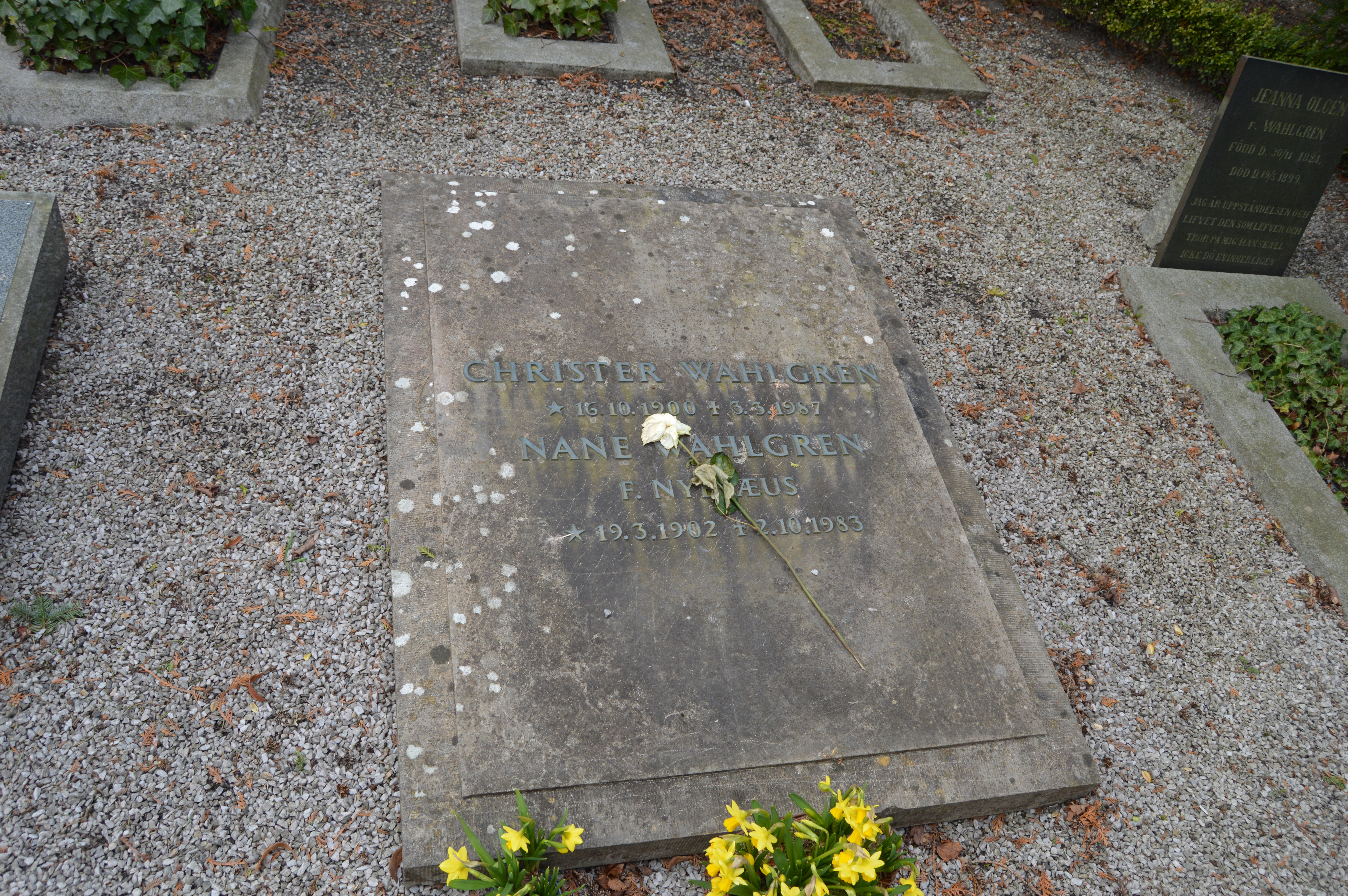 Christer och Nane Wahlgrens grav på Östra kyrkogården i Lund.